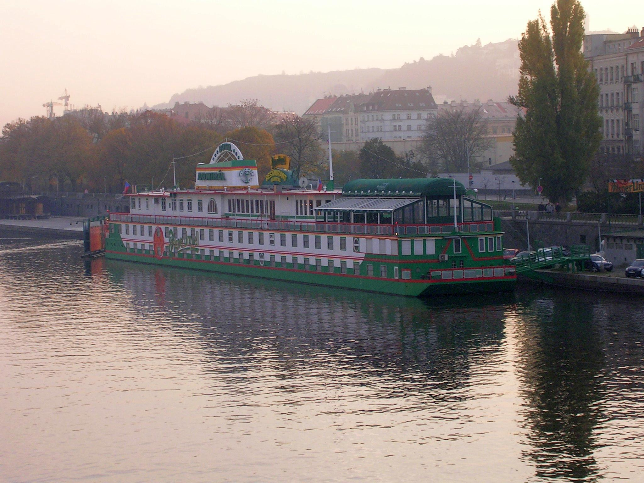 Smíchov, Prague.